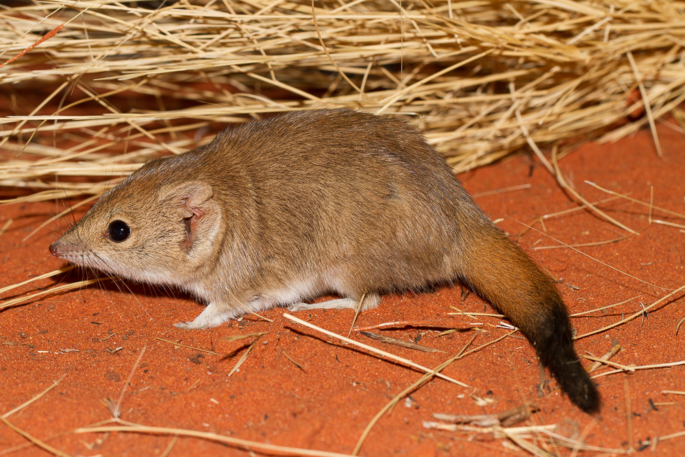 Photo credit: Bobby Tamayo, Simpson Desert, QLD.